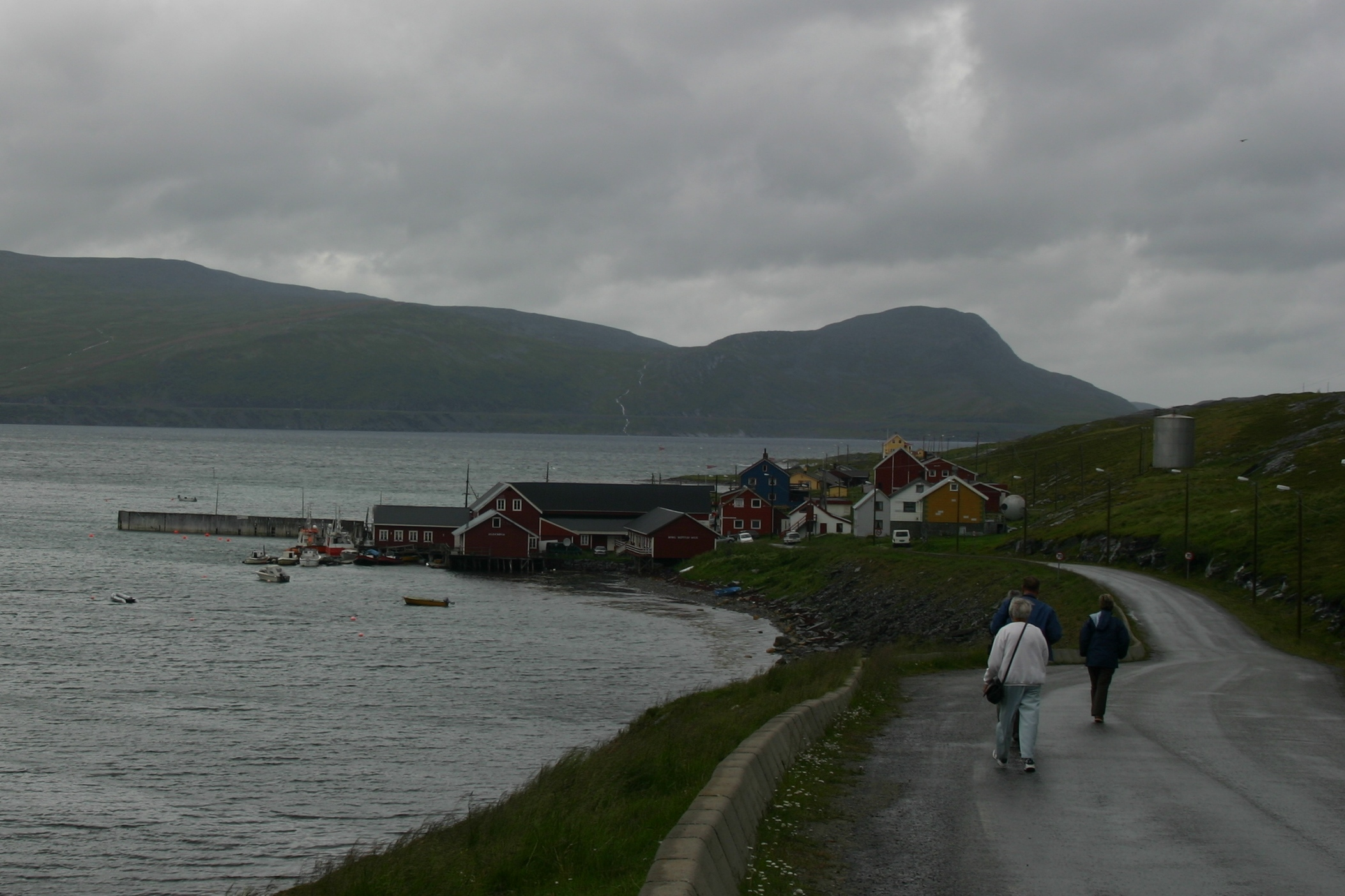 Road to Repvåg